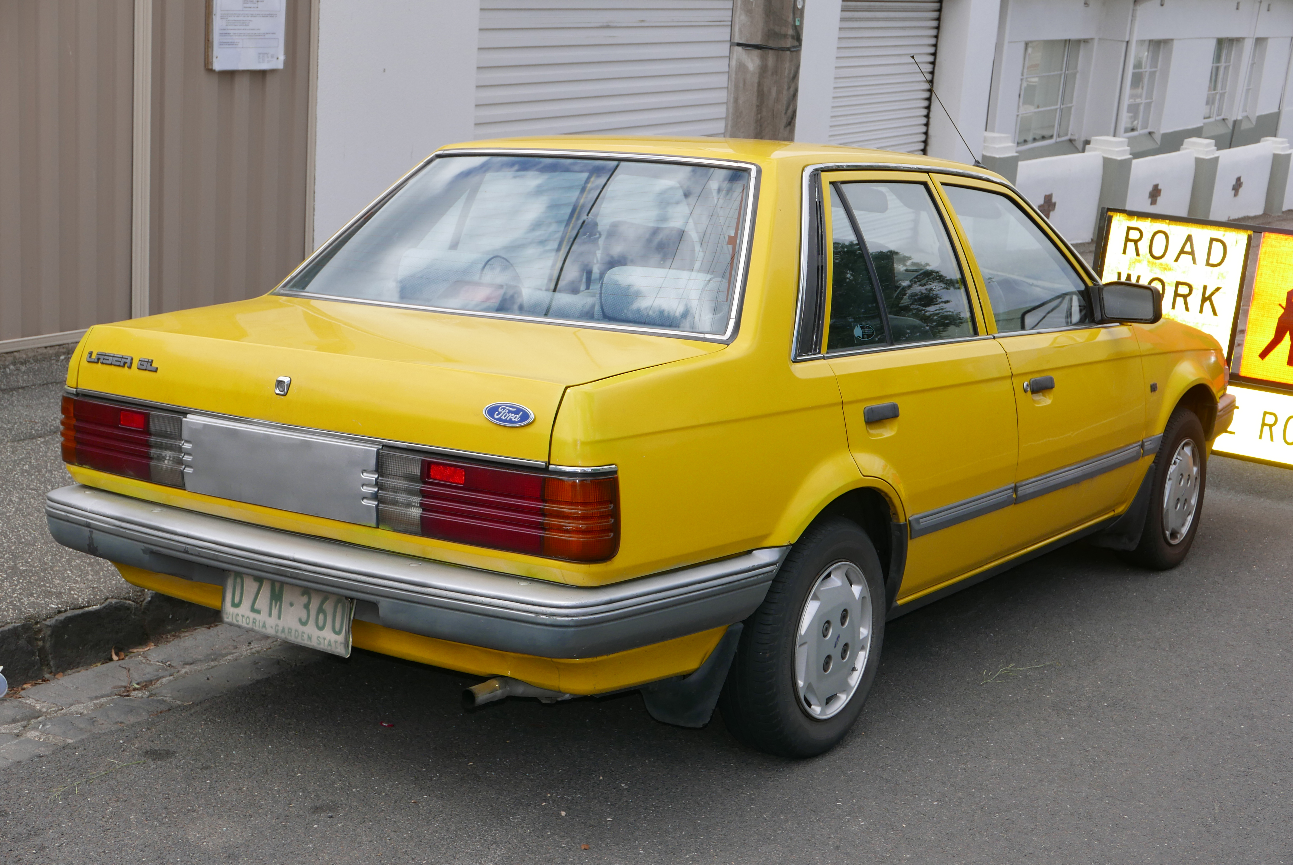 1989 Ford Laser (KE) GL sedan. Photographed in Brunswick East, Victoria, Australia. Vehicle registration enquiry results Jurisdiction Victoria Registration DZM360 Chassis code 6FPAAAUK3SKC27776 Engine code UK3SKC27776 Compliance date 1989-09 Year of manufacture 1989